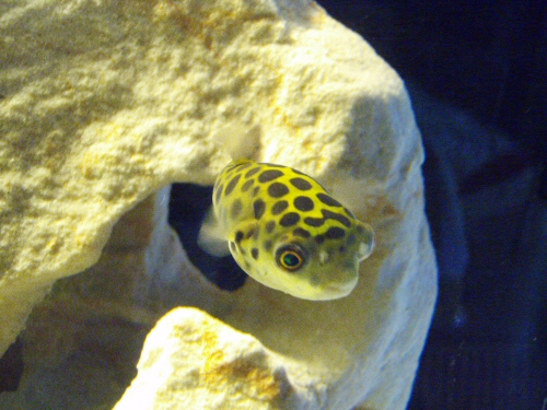 Small Tetraodon nogroviridis in aquarium